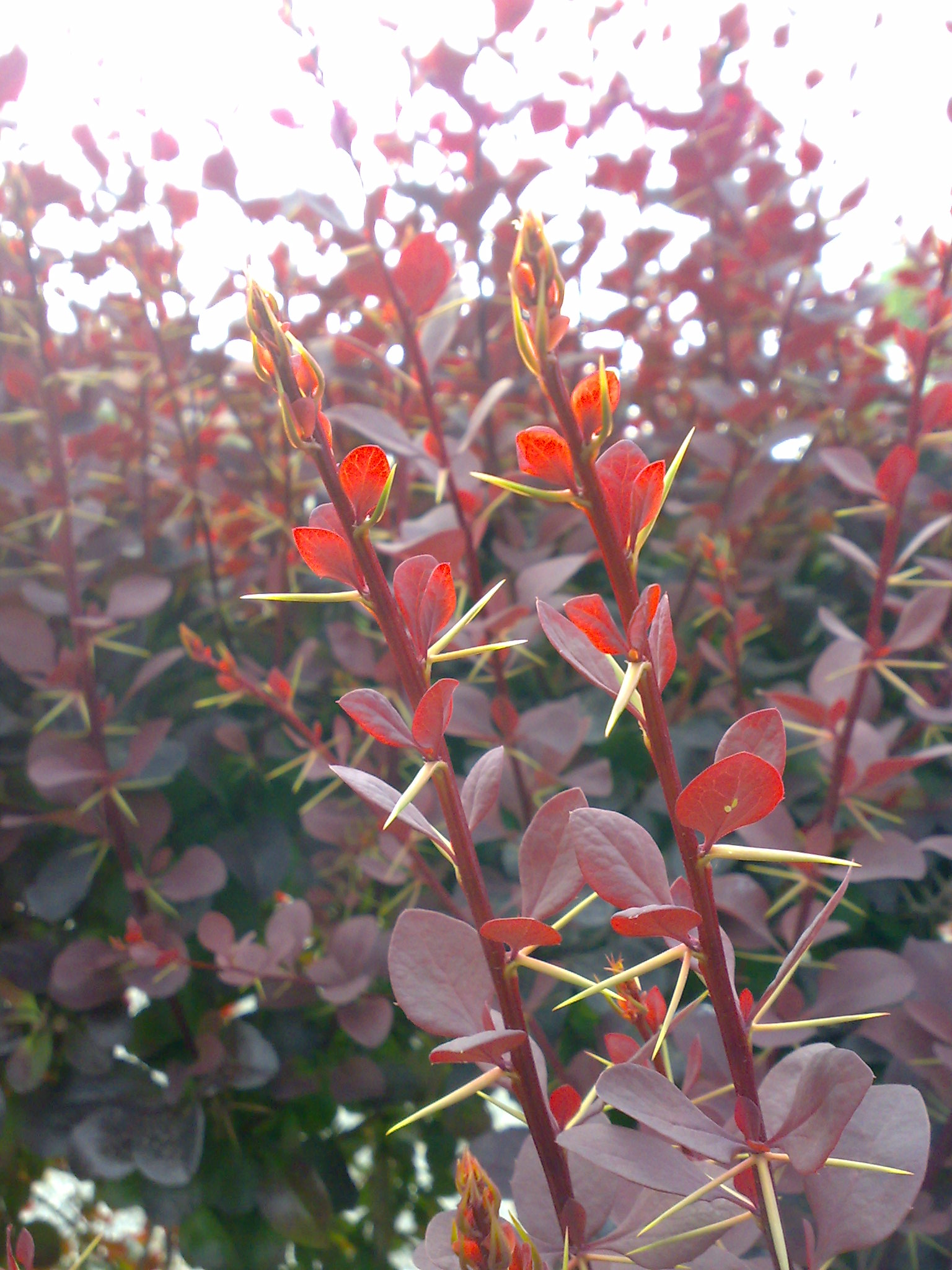 Blodberberis